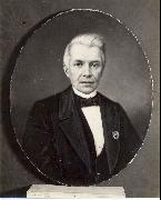 Kaspars Biezbārdis Latvian writer